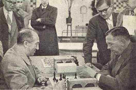 Max Euwe vs Miguel Najdorf - Amsterdam Olympiad 1954